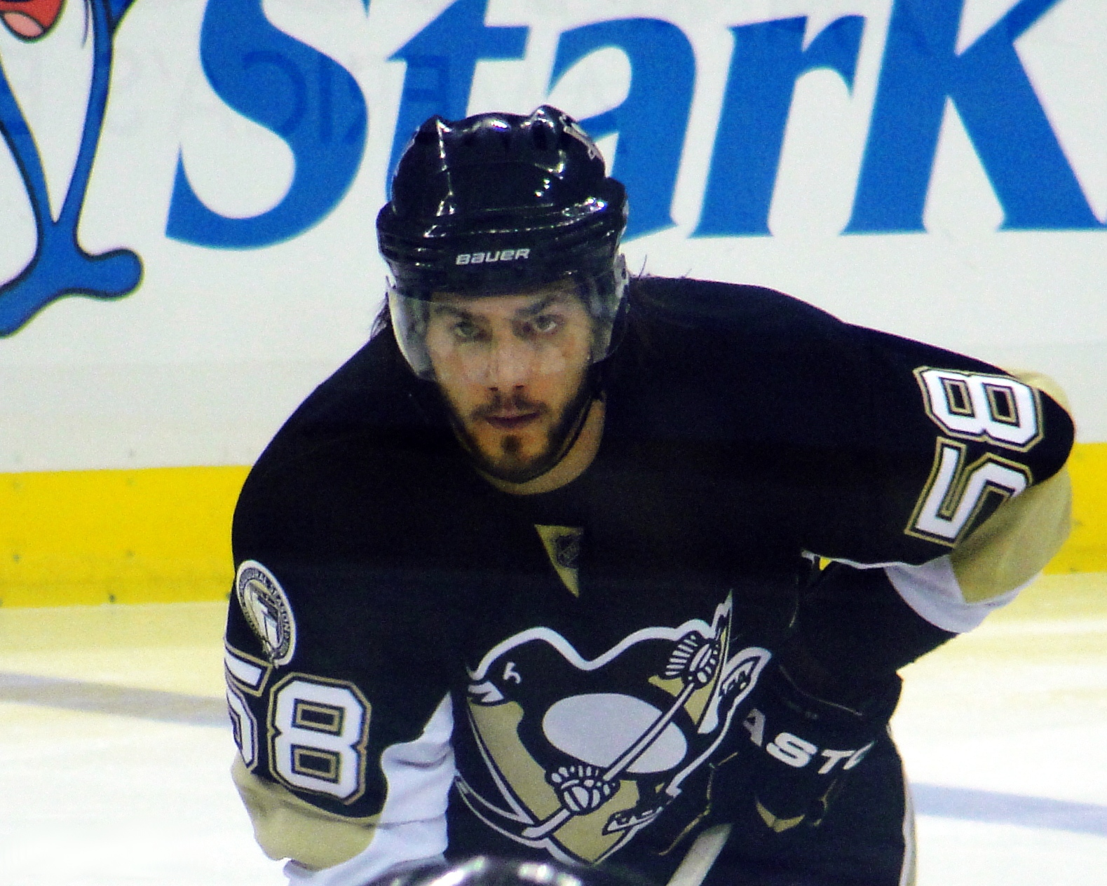 Kris Letang, Defenseman, Pittsburgh Penguins, April 23, 2011.